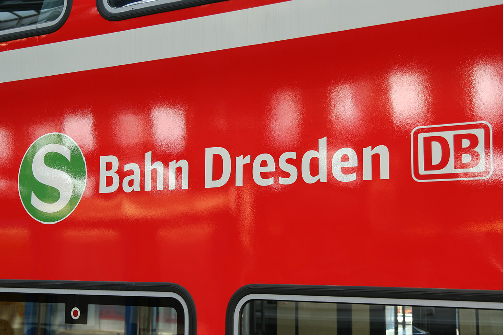 Logo of the S-Bahn Dresden on a double-decker car